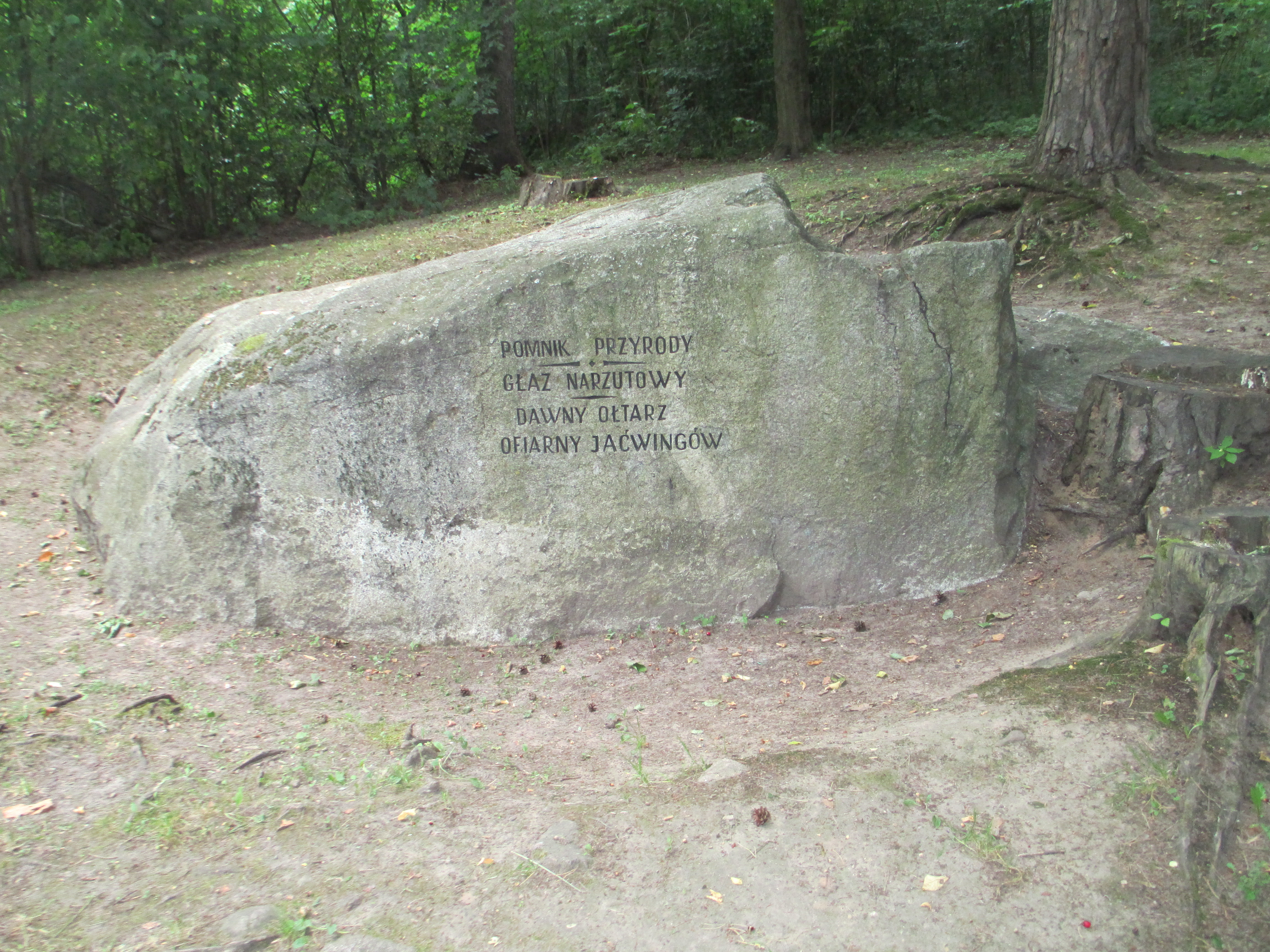 Stare Juchy - Glaz narzutowy